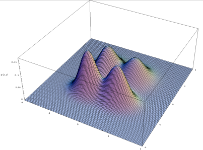 Multimodal bivariate distribution. In both X and Y, it is the sum of two normal distributions. Multimodal bivariate distribution. In both X and Y, it is the sum of two normal distributions.